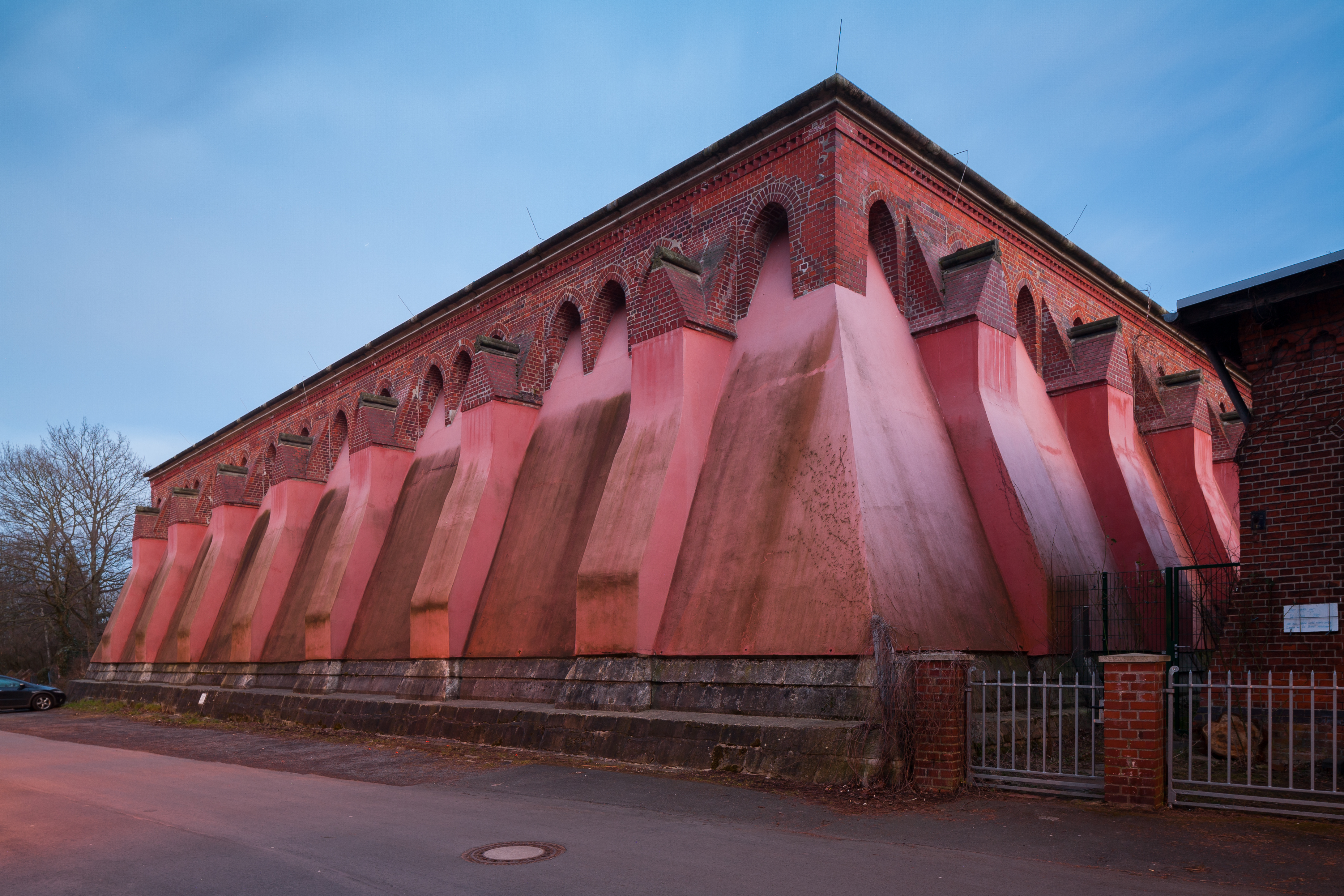 Water tank located on top of Linden hill located at Am Lindener Berge in Linden-Sued district of Hanover, Germany.